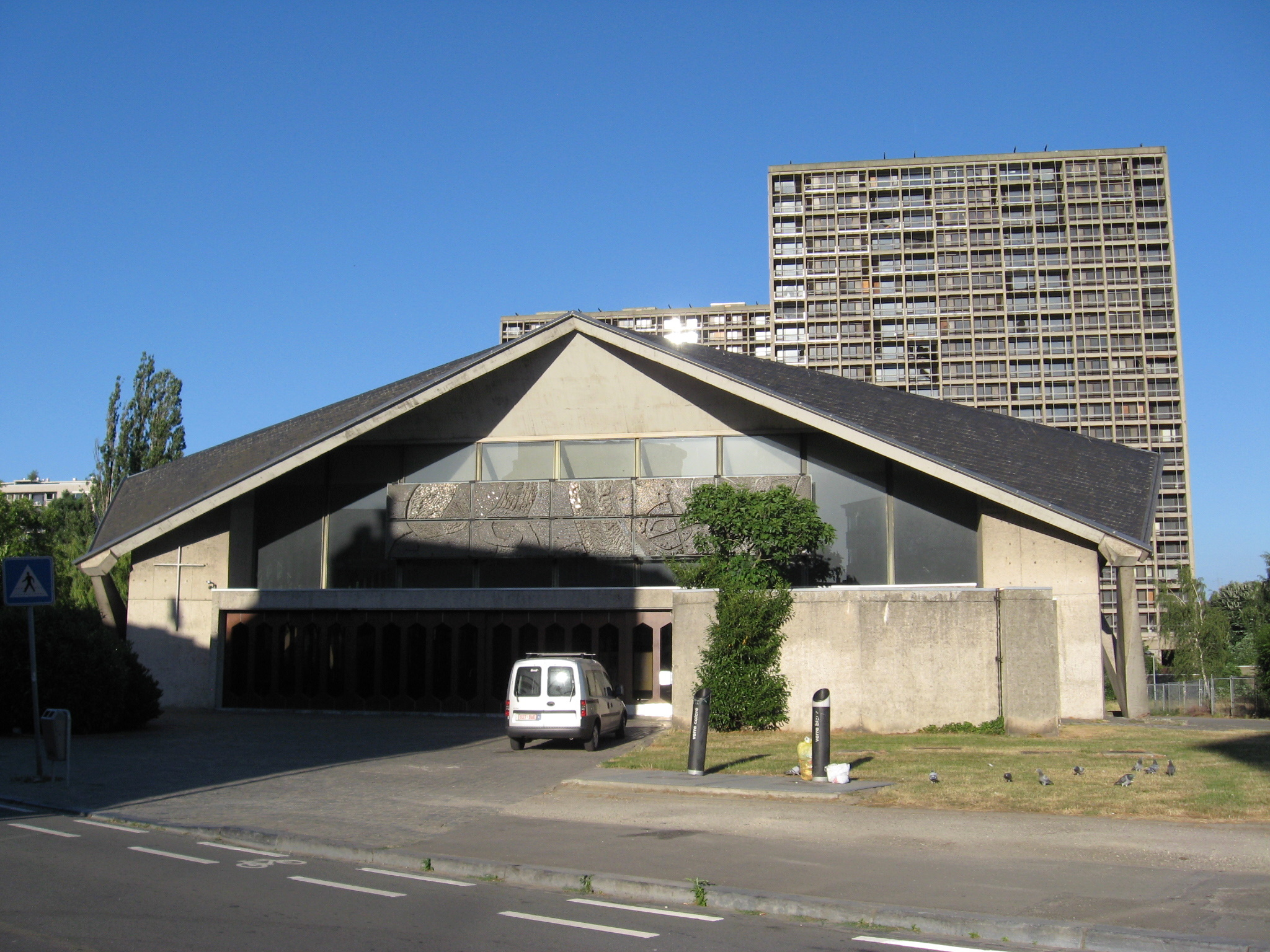 Church of Saint Peter and Paul in Droixhe, Liège, Liège, Belgium